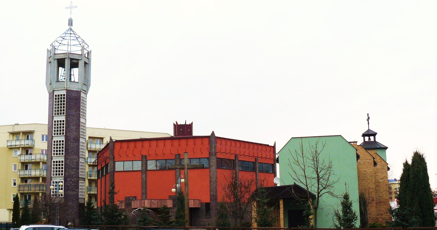 Church in Batorego District (Poznan).